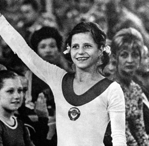 Soviet gymnast Olga Korbut salutes the audience at an exhibition in Milan, Italy.